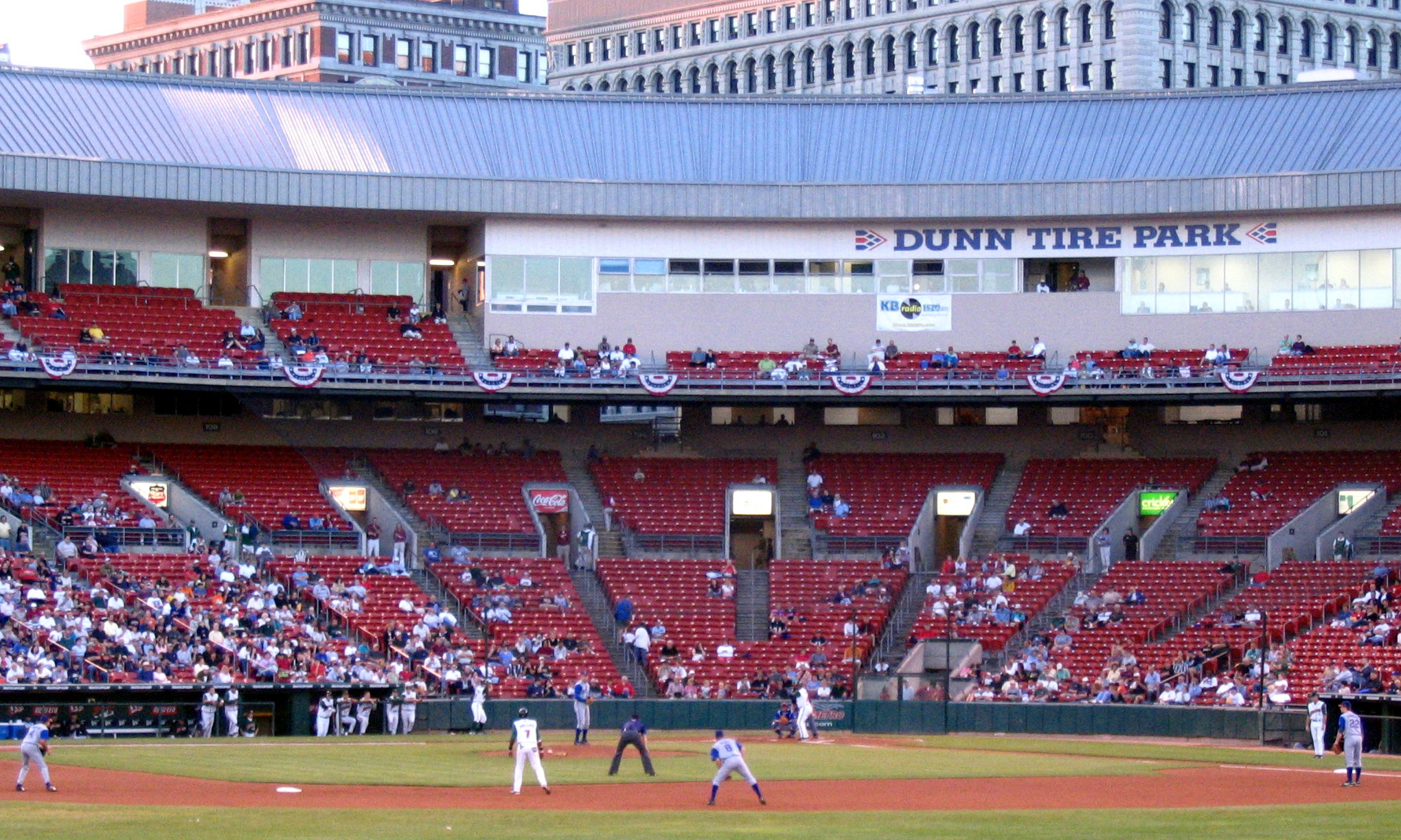 Dunn Tire Park in Buffalo18:20, 5 November 2006 . . Vlastula . . 2040×1224 (913,472 bytes)